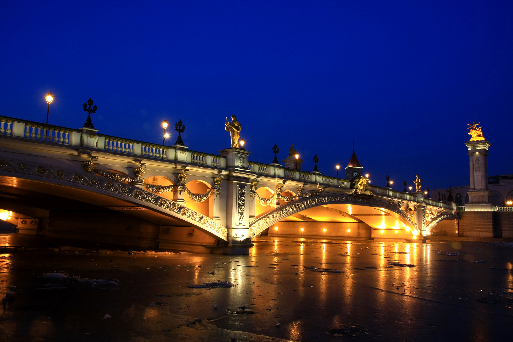 Beian Bridge in Tianjin